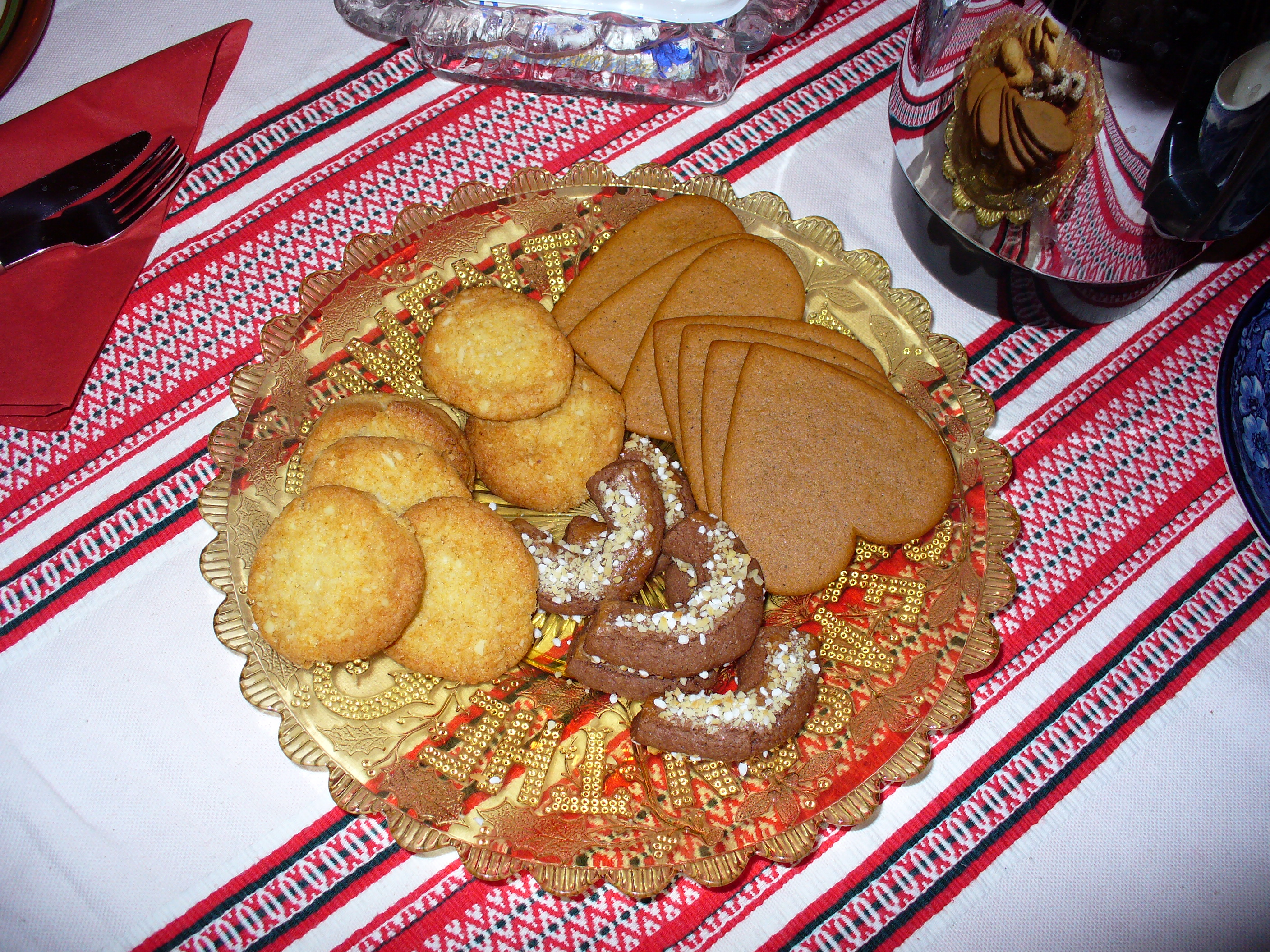 Swedish Christmas biscuits. Bondkakor ("farmer biscuits"), horseshoe biscuits and gingerbread.